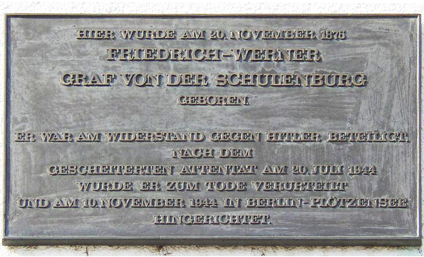 Memorial plaque for Friedrich-Werner Graf von der Schulenburg in Kemberg in Saxony-Anhalt, Germany